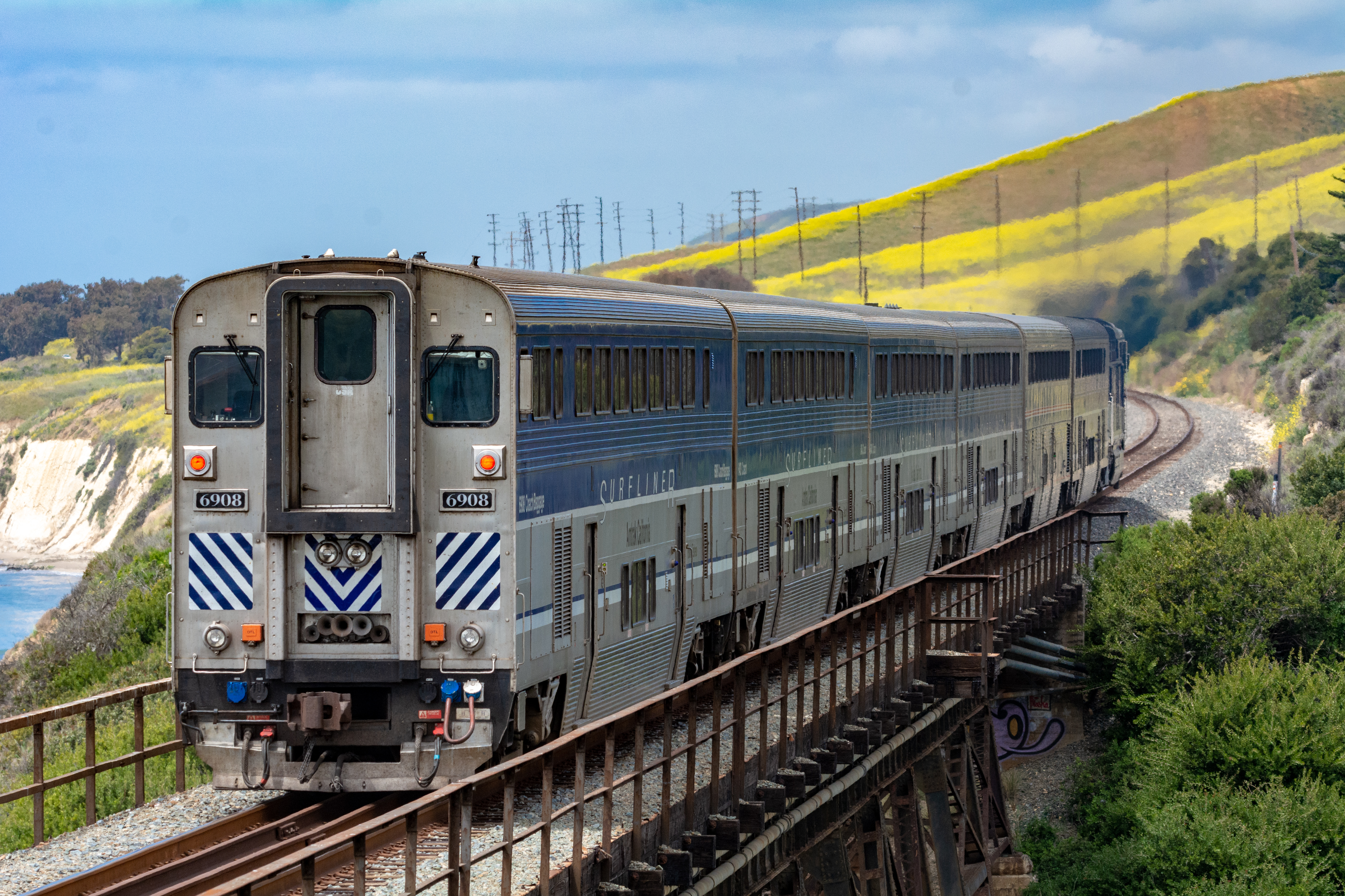 Northbound Pacific Surfliner #763 crosses Arroyo Hondo on a high trestle in May 2018